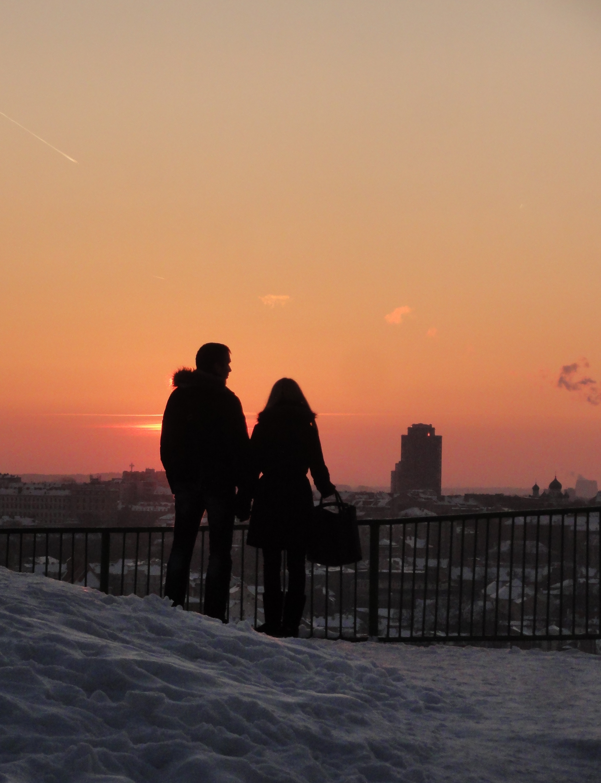 People at a sunset in Vilnius, Lithuania